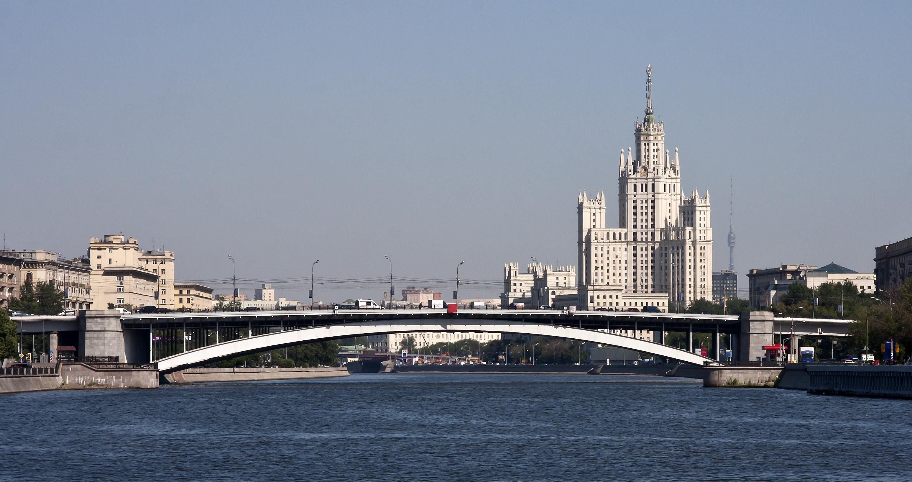 Bolshoy Krasnokholmsky Bridge over Moskva River in central Moscow.